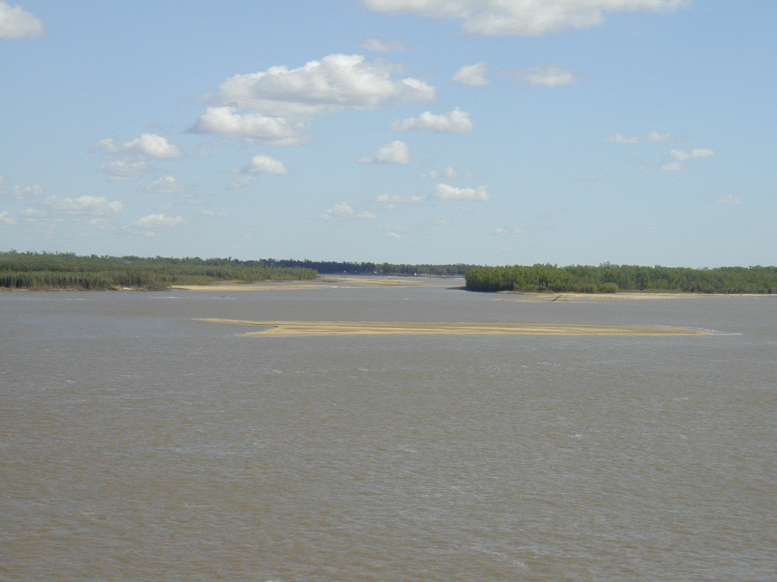 sand bank in Paraná river, Argentina